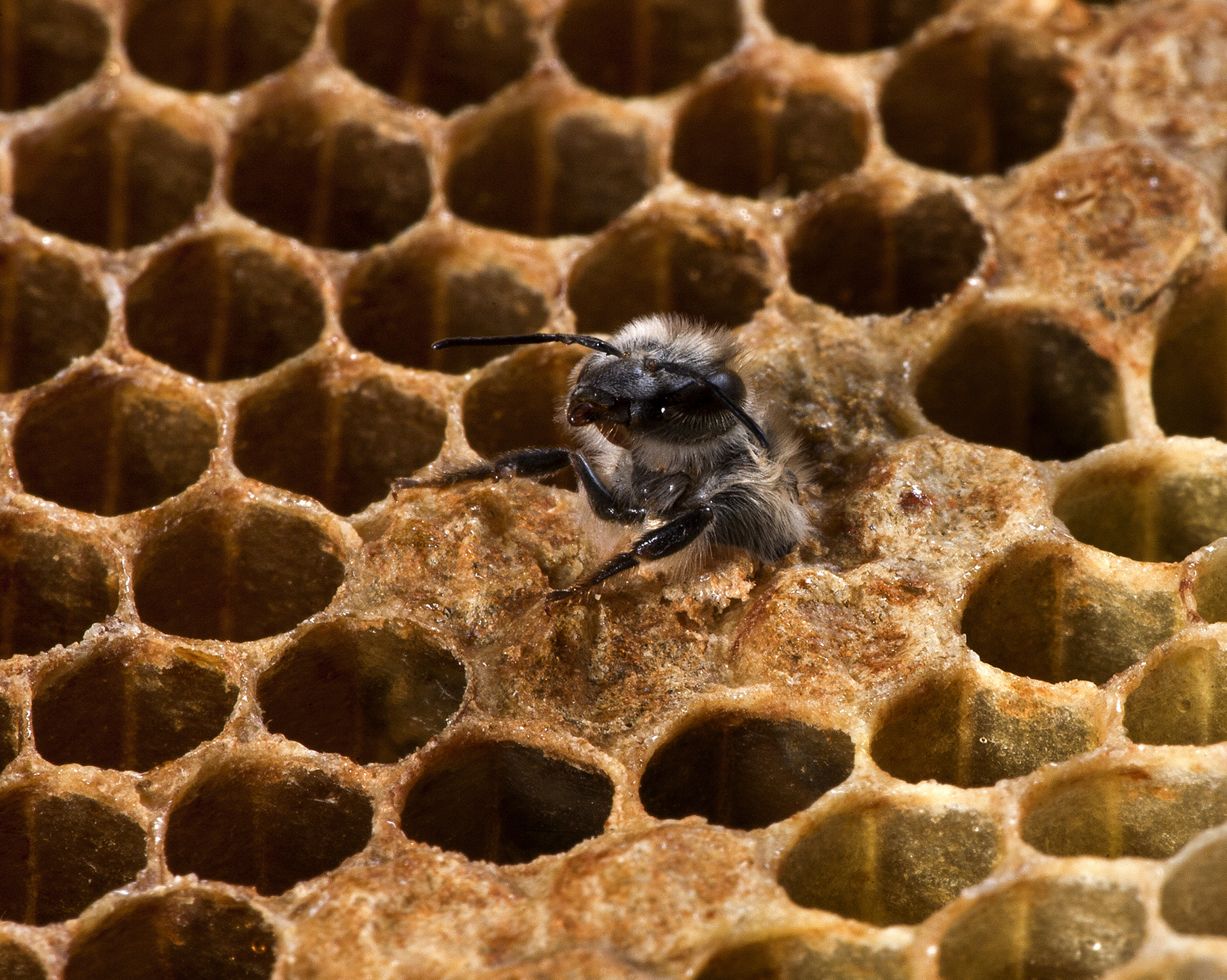 Apis Mellifera drone - moments at birth